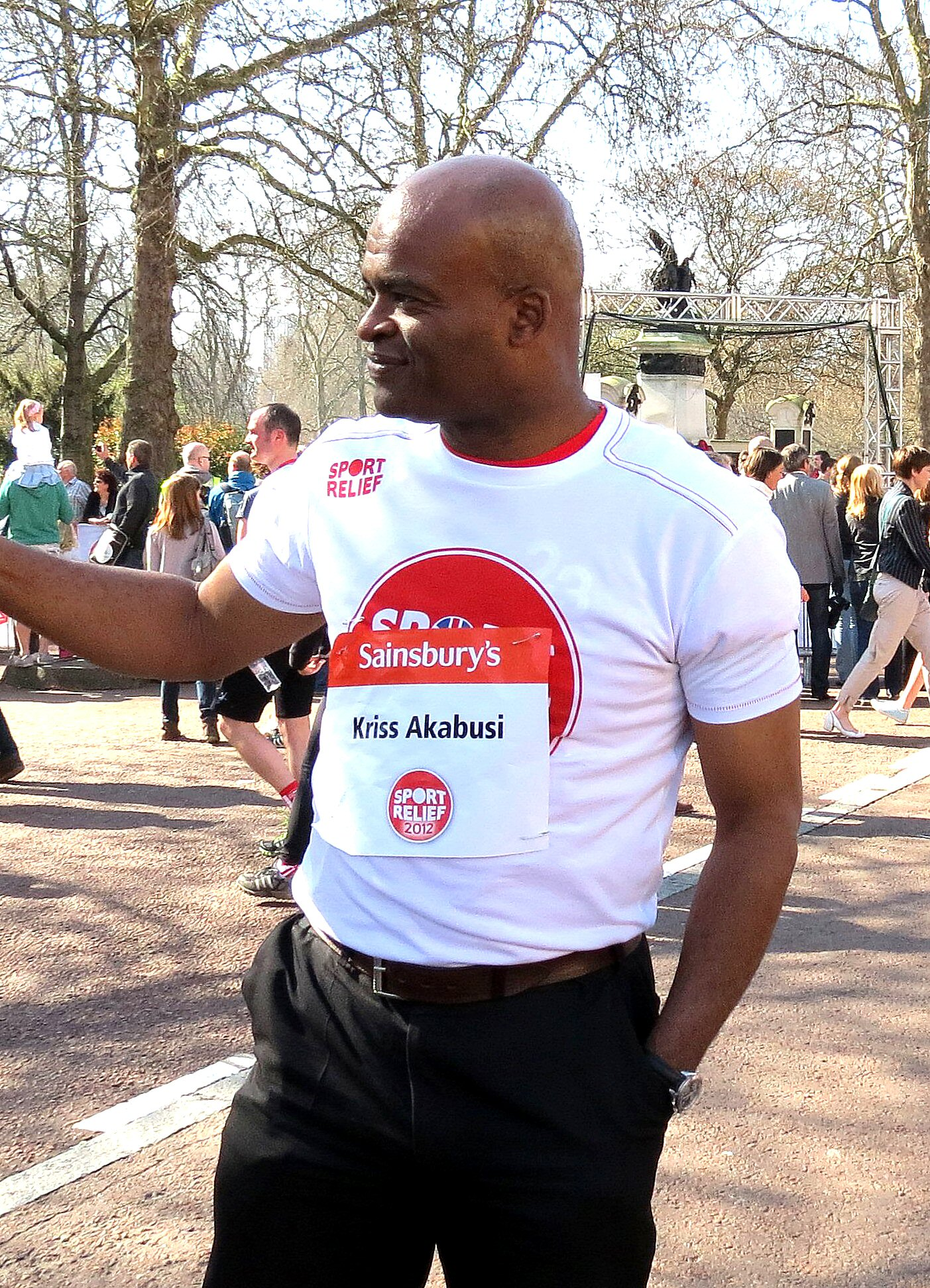 Kriss Akabusi takes part in a charity run in Hyde Park, London March 2012